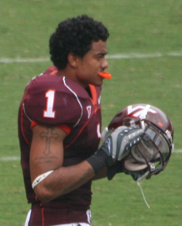 Macho Harris and Cam Martin of the Virginia Tech Hokies walk onto the field